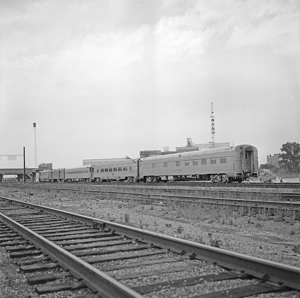 Title: [Atchison, Topeka, & Santa Fe, Diesel Electric Passenger Locomotive No. 11, Left Rear] Creator: DeGolyer, Everett L. (Everett Lee), 1923-1977 Date: May 1964 Part of: Everett L. DeGolyer Jr. collection of United States railroad photographs Place: Dallas, Texas Description: The last car shown is the Palm Dome, an American Car & Foundry 10-6 (10 roomette, 6 bedroom), which was originally built for the 1951 Super Chief. Physical Description: 1 negative: film, black and white; 6.5 x 6.5 cm Railway Identifier: Texas Chief Railway Line: Atchison, Topeka, and Santa Fe Railway Company File: ag1982_0232_atsf_00011_neg03204b_sm_opt.jpg Rights: Please cite DeGolyer Library, Southern Methodist University when using this file. A high-resolution version of this file may be obtained for a fee. For details see the web page. For other information, . For more information, see: View the Railroads: Photographs, Manuscripts, and Imprints Collection